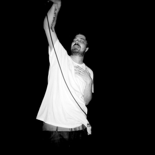 Aesop Rock performing at Irving Plaza NYC in fall 2007